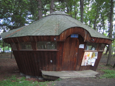 The "Yurt," Hampshire's student-run radio station. Author: Justin Lutz